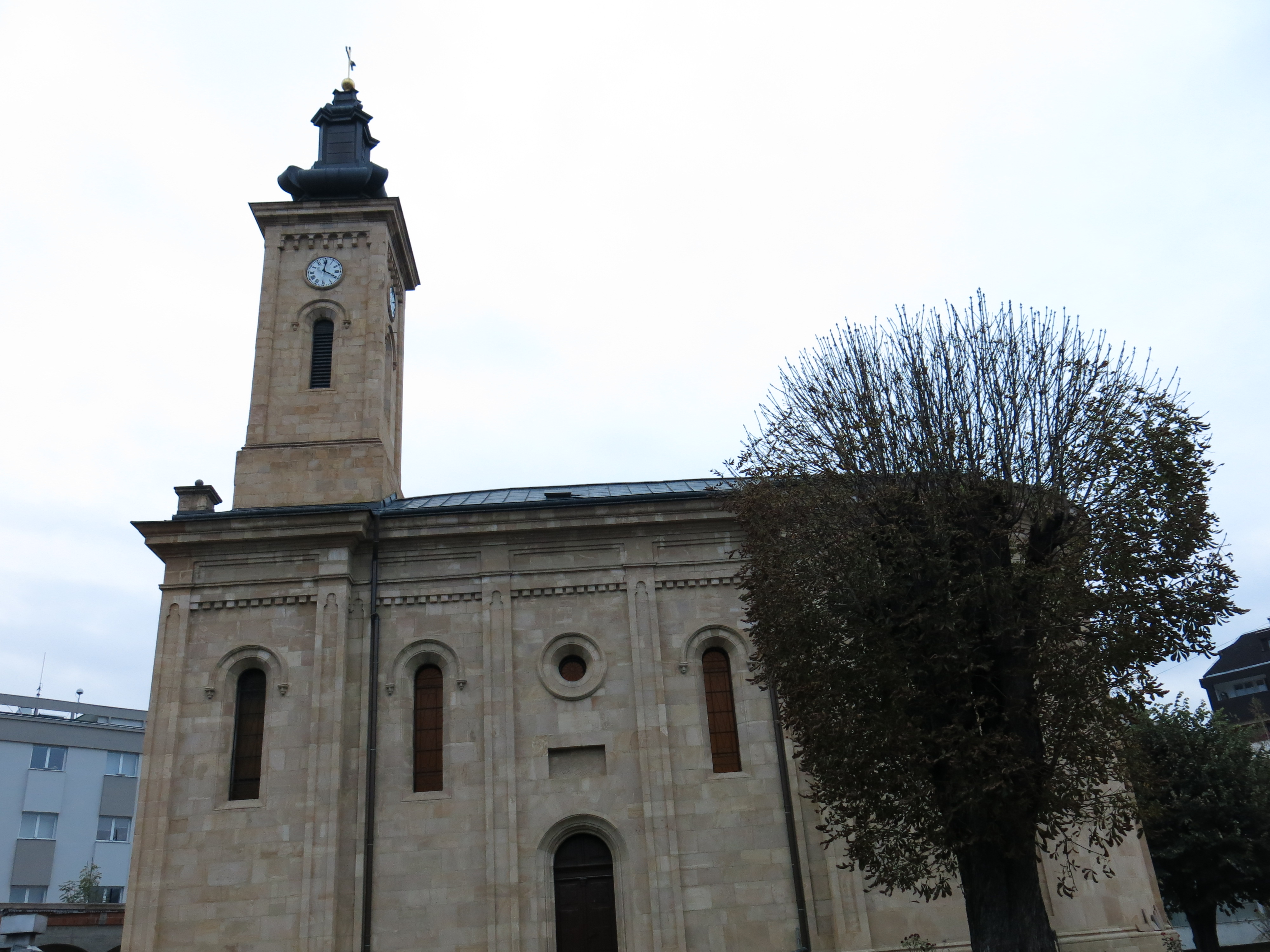 Gornji Milanovac, Church of the Holy Trinity